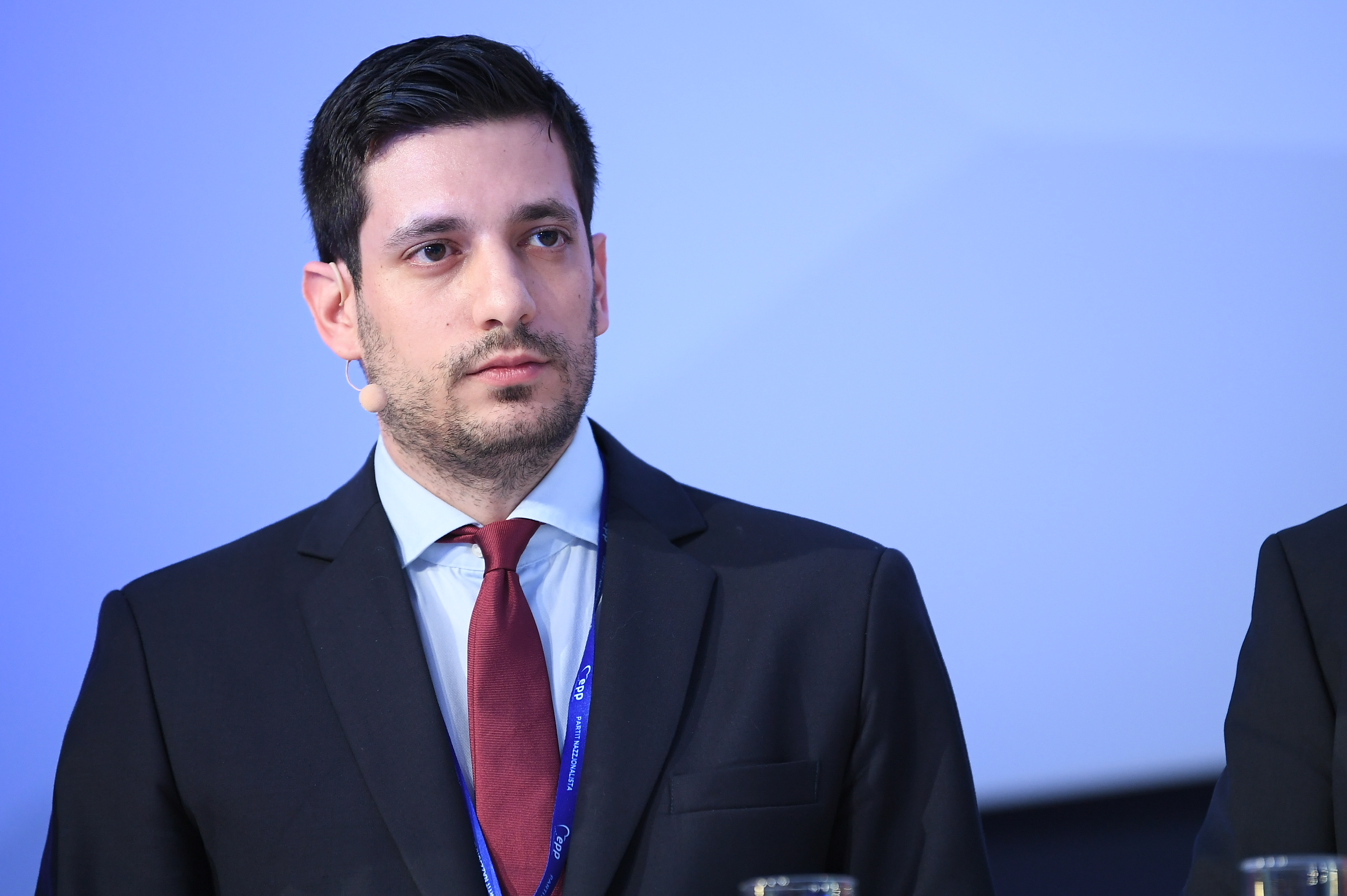 EPP Malta Congress 2017 ; 29 March